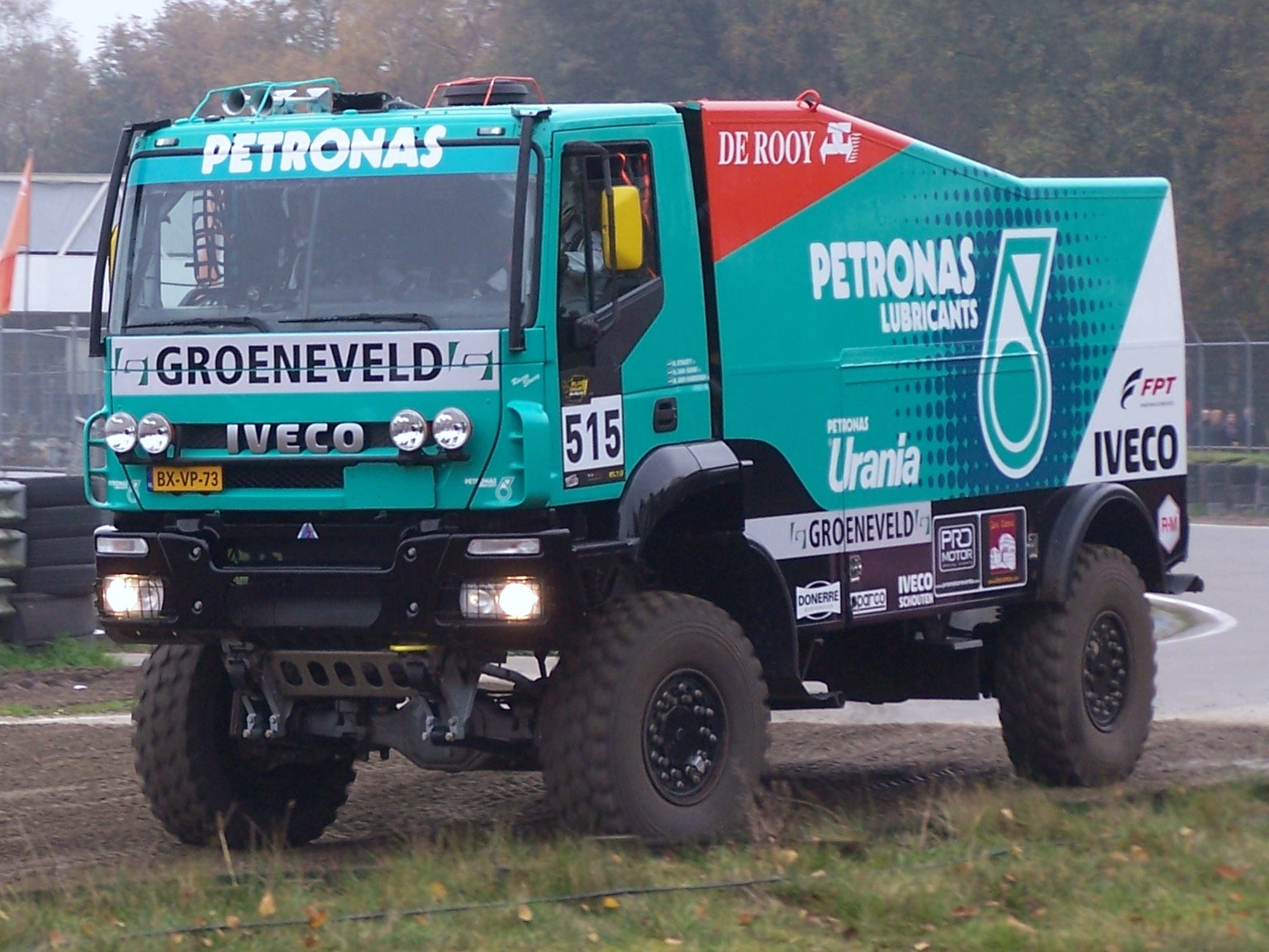 Iveco Trakker EVO II 4x4 van Hans Stacey, Petronas - Team De Rooy - Iveco